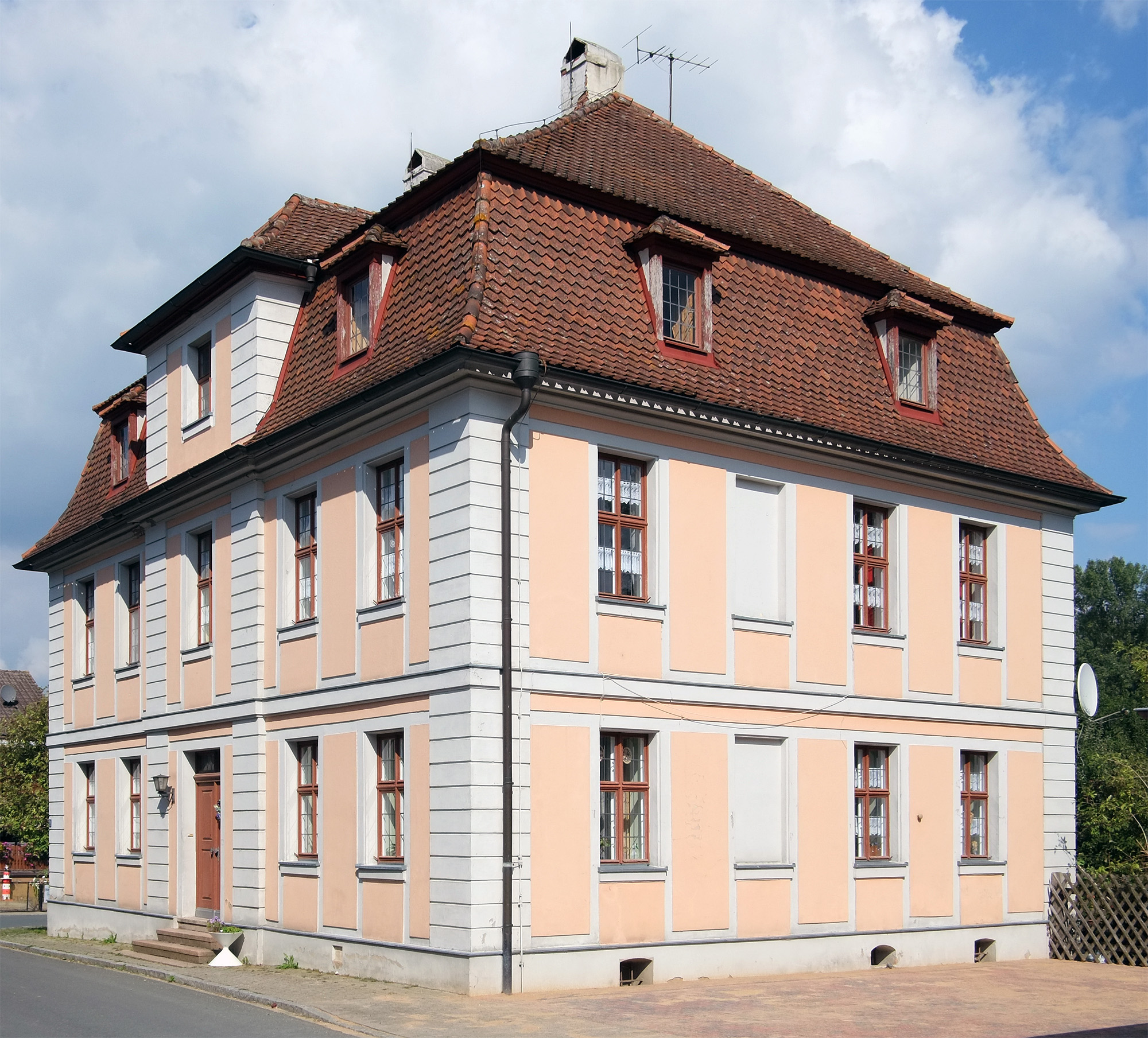 This is a photograph of an architectural monument.